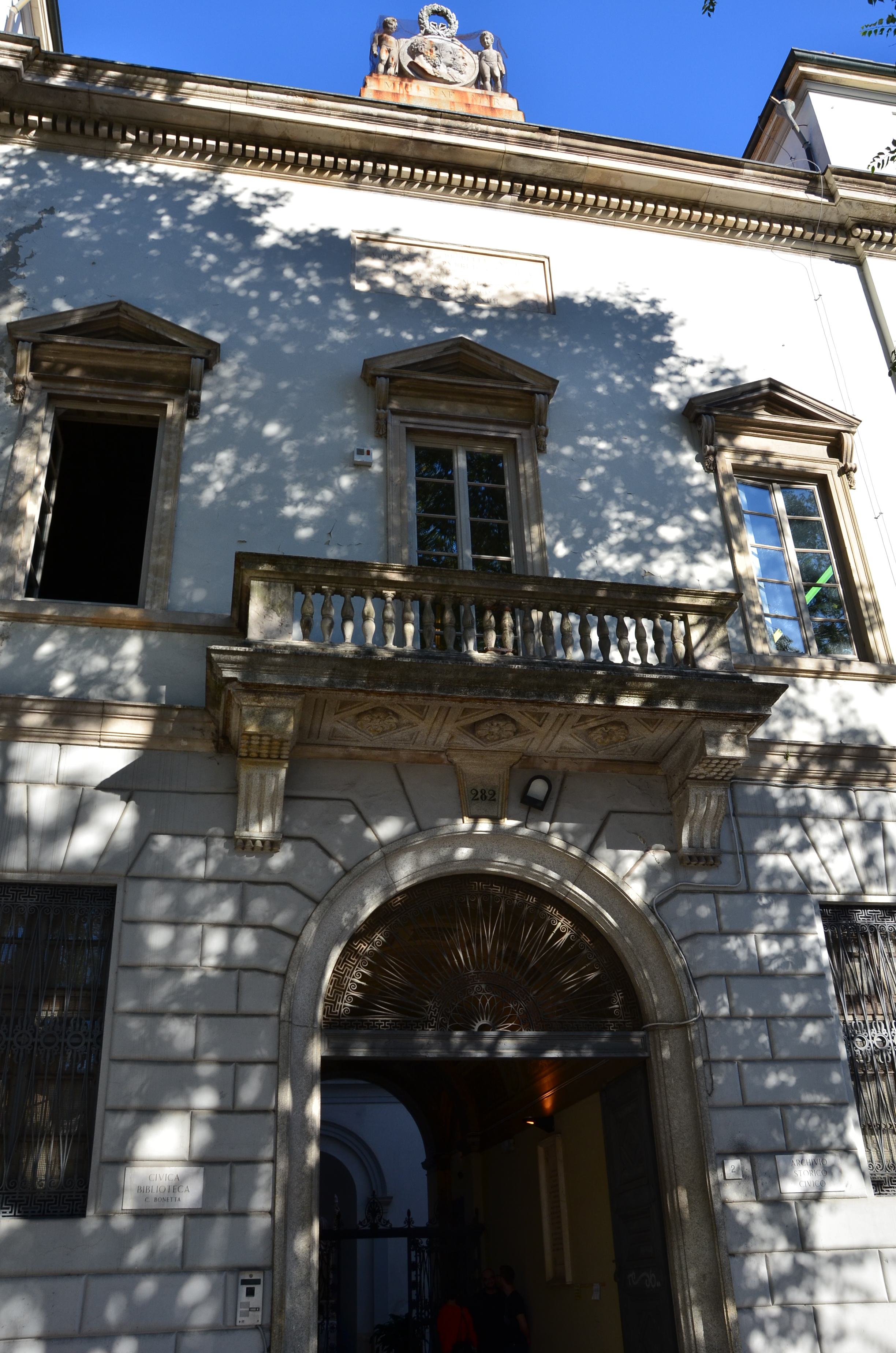 This is a photo of a monument which is part of cultural heritage of Italy.